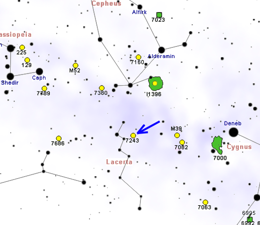 Map of NGC 7243